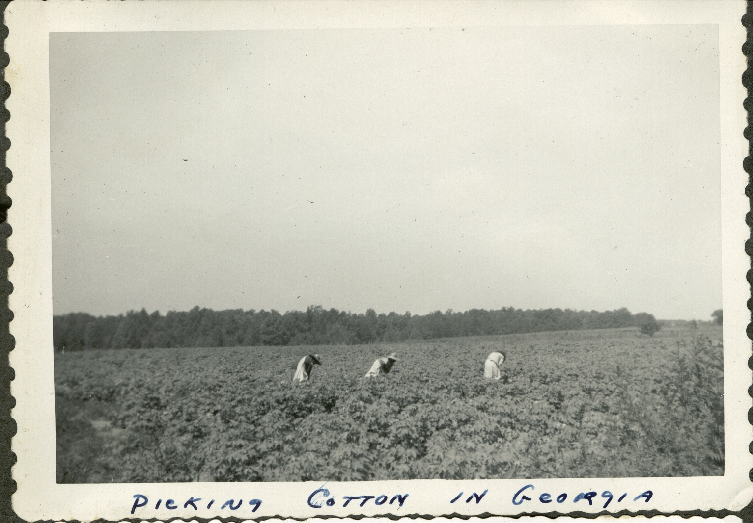 Picking Cotton in Georgia USA